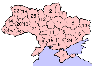 Ukraine numbered by oblasts